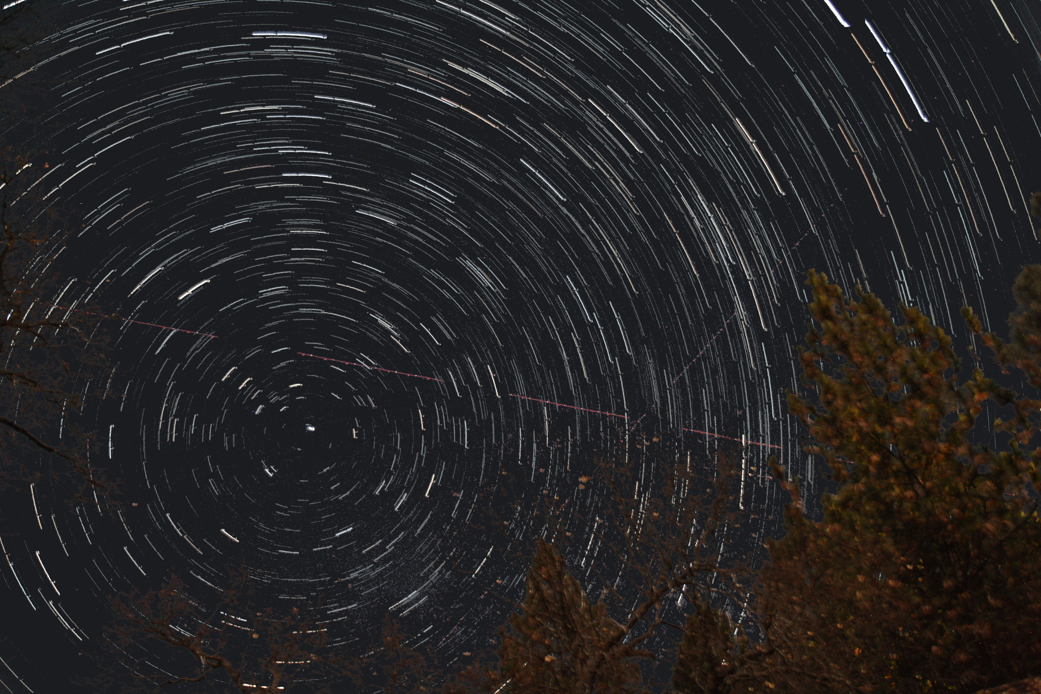 I took a somewhat similar shot at the time of the Leonid meteor shower, but wanted to repeat it with the north star in the view. This was taken with a nearly full moon which lit up the trees and added background light to the sky, but a reasonable number of stars were still visible. Stop now if you don't want all the details... - This was created from 149 separate 10-second exposures. All were shot at F2.8, 17mm focal length, and ISO 1600. - Combining these images in my photo software would have required over 1000 mouse operations, so I modified an old Java program I had lying around to do the job. - The software simply chose the brightest value from each of the 149 files for each pixel. - Each star path has a gap in it about 2/3 of the way through because there was a delay between the first 100 images an the rest. - The trees were lit by moonlight, and briefly by some light through a skylight in the house below. - The dotted lines represent passing aircraft, and the gaps in those lines are due to a delay of a few seconds between each exposure. - I actually took the images on December 1, but I don't feel too badly posting the result as my December 2 picture of the day because I did all the coding and processing on the 2nd. - I did take other pictures on the 2nd. I'm really looking forward to repeating this on a clear moonless night using 30 second exposures.